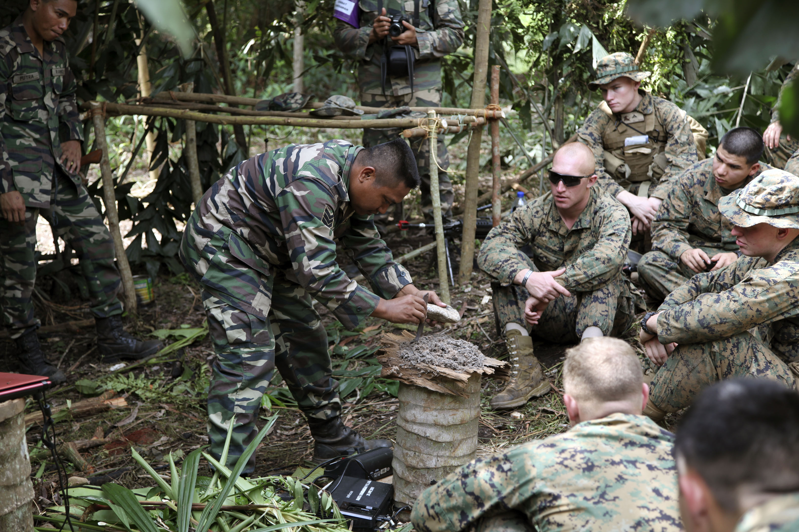 Kuantan, Malaysia (Dec. 15, 2011) A Malaysian soldier from the Malaysian Army Jungle Survival Wing teaches the Marines of India Company, Battalion Landing Team 3/1, 11th Marine Expeditionary Unit (11th MEU) how to use materials found in the jungle to start a fire during Kilat Eagle, a bilateral training exercise between Marines and Sailors of the 11th MEU and soldiers from the Malaysian army. The Camp Pendleton, Calif., based unit is embarked aboard the amphibious assault ship USS Makin Island (LHD 8), the amphibious transport dock ship USS New Orleans (LPD 18) and the amphibious dock landing ship USS Pearl Harbor (LSD 52) and arrived in Malaysia Dec. 14 as part of a scheduled deployment. (U.S. Marine Corps photo by Staff Sgt. Chance W. Haworth/Released)